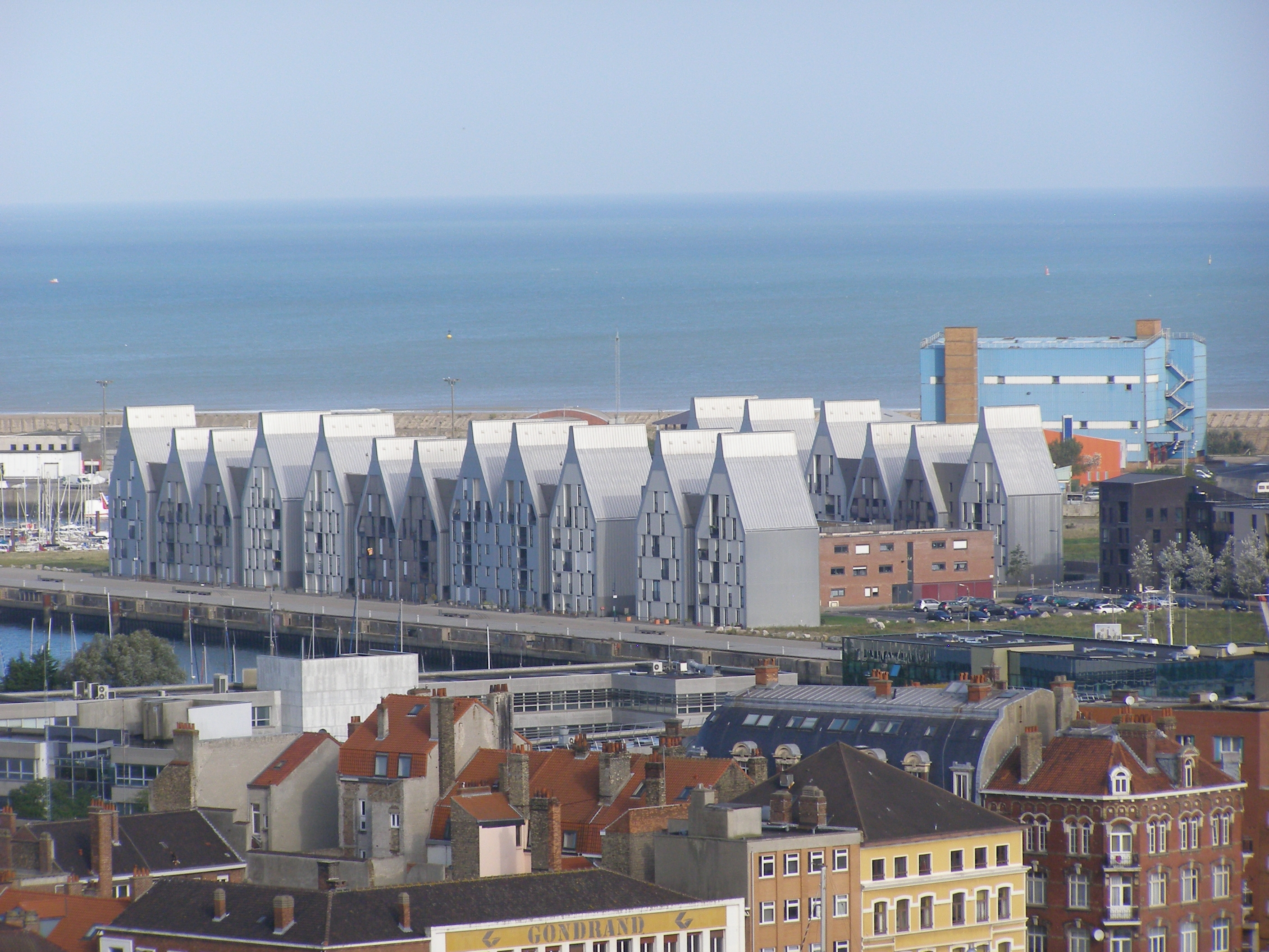 Dunkirk - view from the St. Eligius church belfry